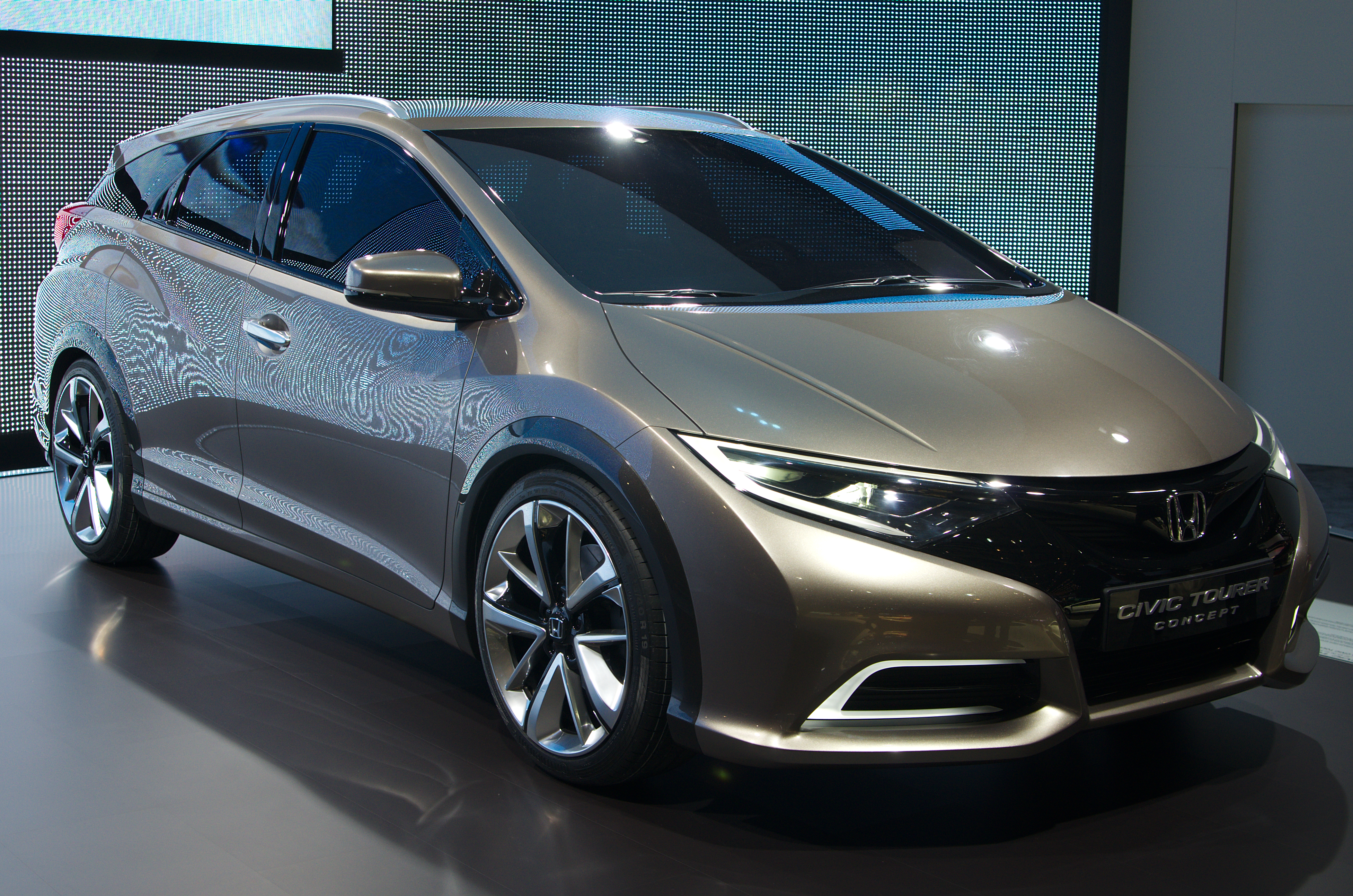 Geneva MotorShow 2013 - Honda Civic Tourer Concept